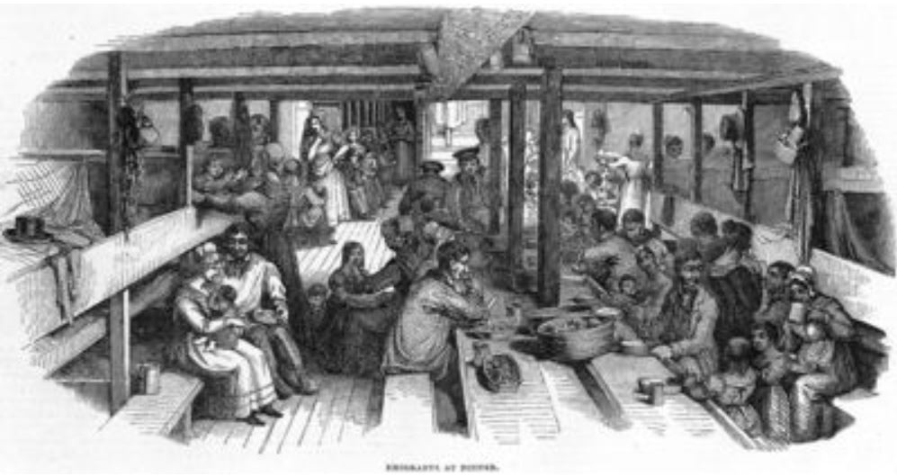 Below deck on the Iimmigrant ship St Vincent (1829) in 1844